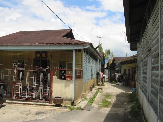 Gombak New Village - GombakNewVillage.JPG